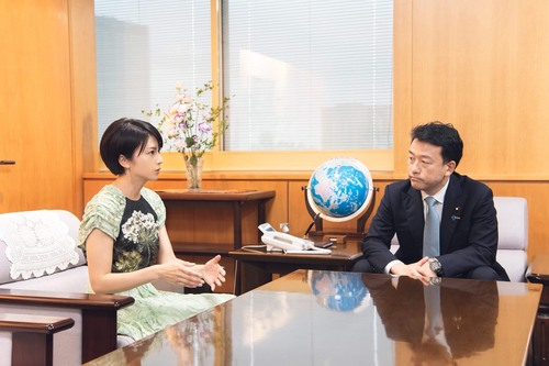 Kō Shibasaki, President of the Les Trois Graces Inc., talked with Hiroyoshi Sasagawa, Parliamentary Secretary of the Environment, at the Central Government Building No.5 in Chiyoda Ward, Tōkyō Metropolis on July 6, 2018.